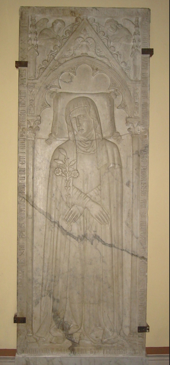 Chiara Gambacorta (1362-1420)